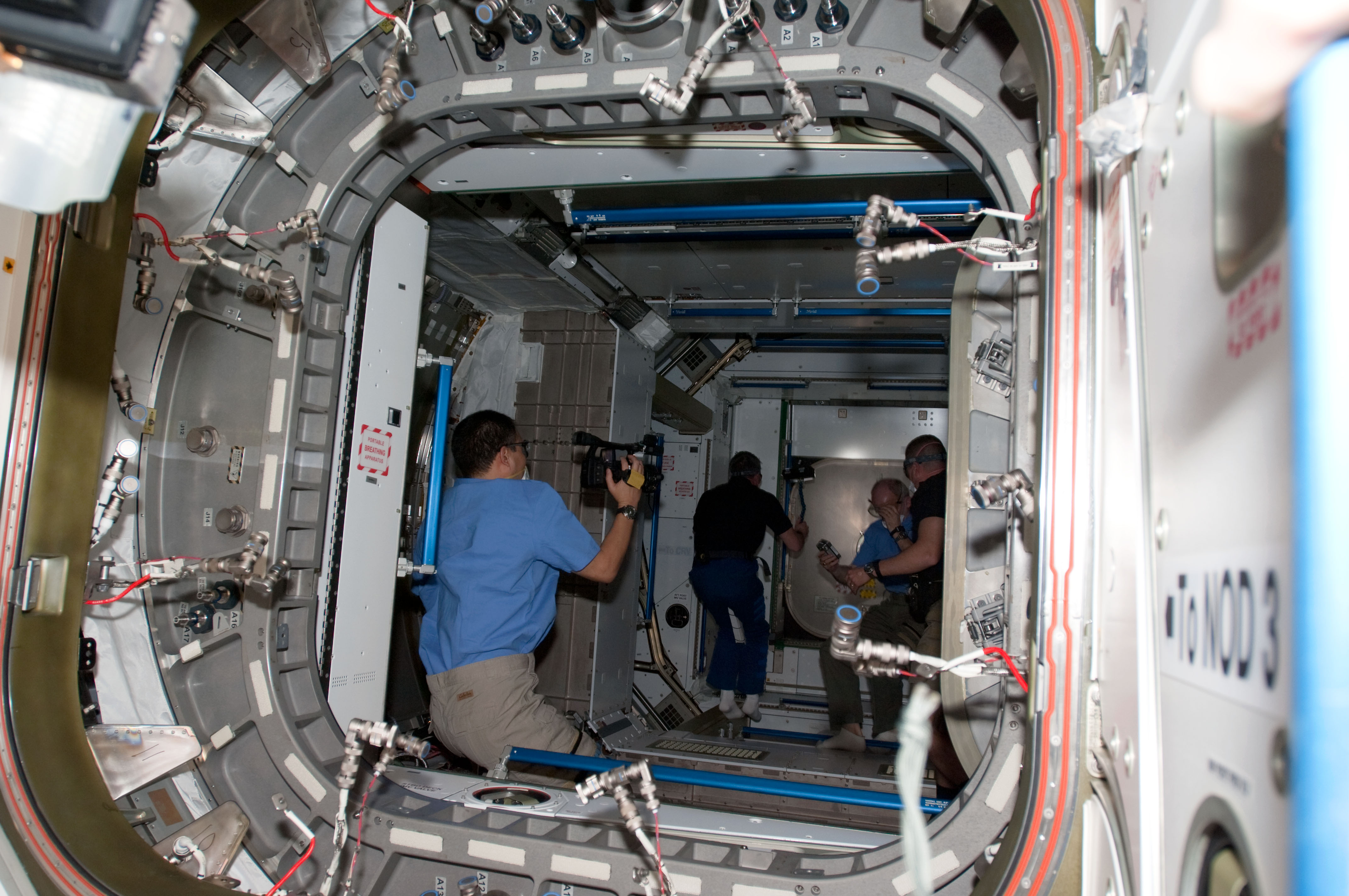 Japan Aerospace Exploration Agency (JAXA) astronaut Soichi Noguchi, Expedition 22 flight engineer, uses a video camera in the newly-installed Tranquility node of the International Space Station while space shuttle Endeavour remains docked with the station. NASA astronauts George Zamka (right), STS-130 commander; Jeffrey Williams (center), Expedition 22 commander; and Stephen Robinson, STS-130 mission specialist, are visible in the background.